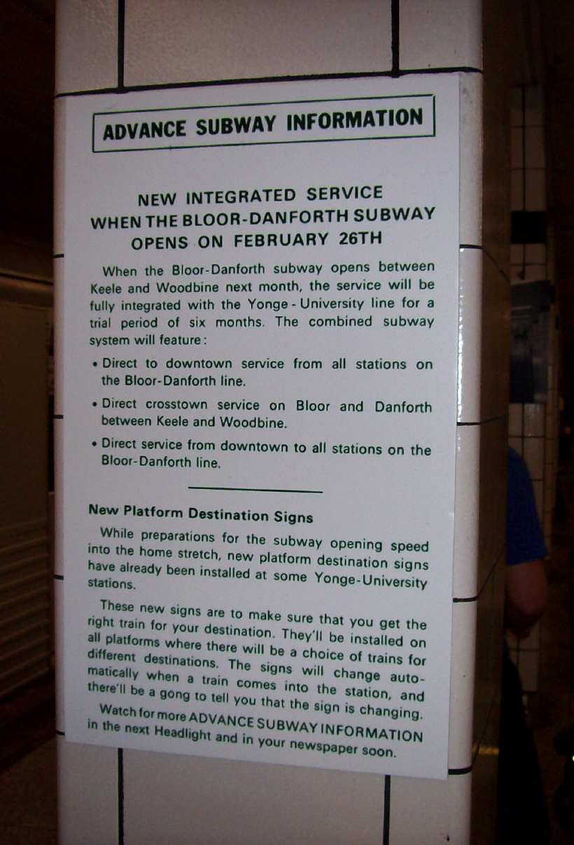 Lower Bay signage during Doors Open Festival. The sign is from 1966, when the TTC was about to open the Bloor Danforth subway line.